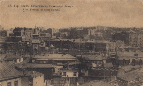 Common view of Evbaz market (Galitska square) in Kiev